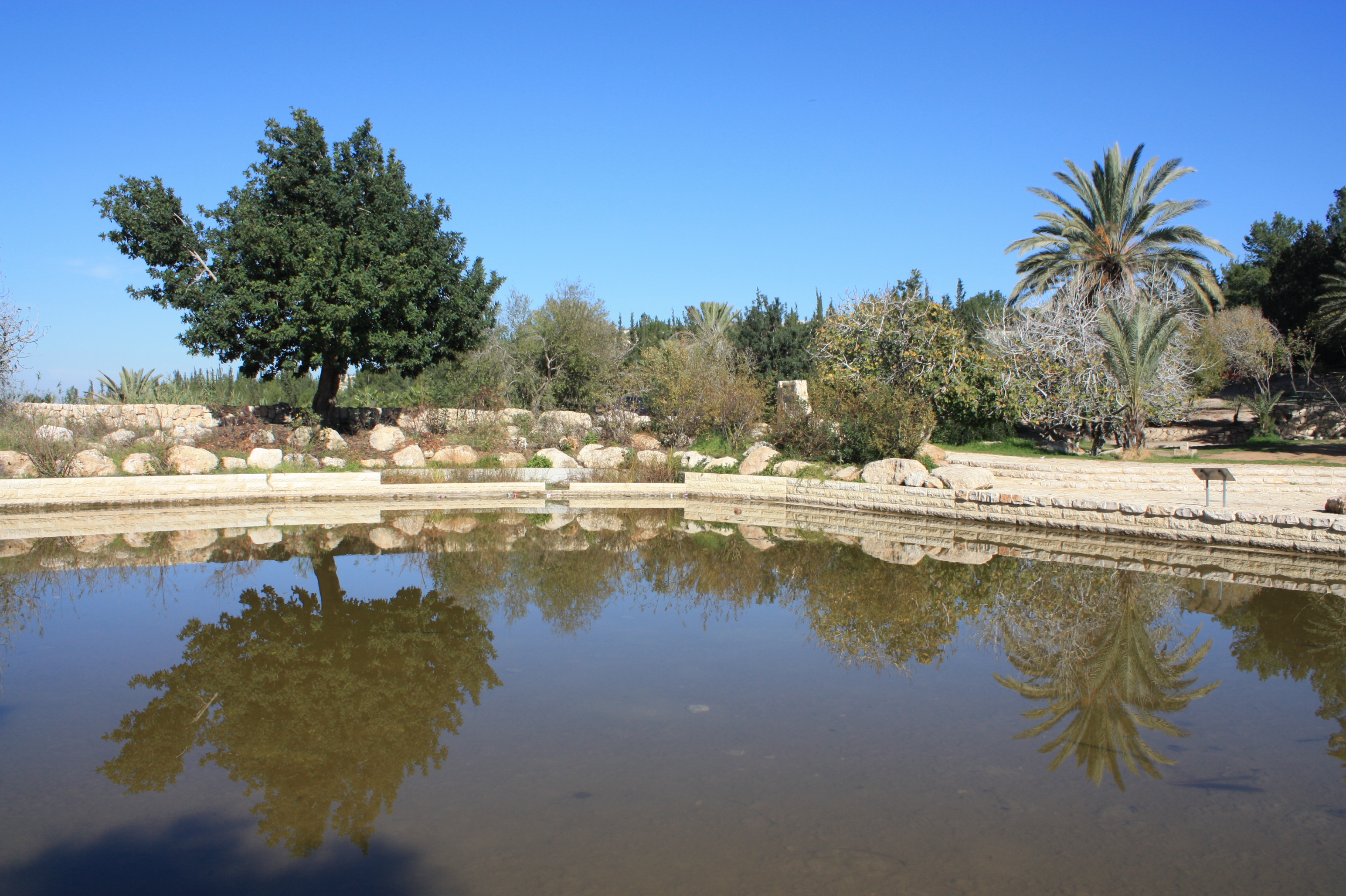 The small (artificial) lake in Canada park, Israel